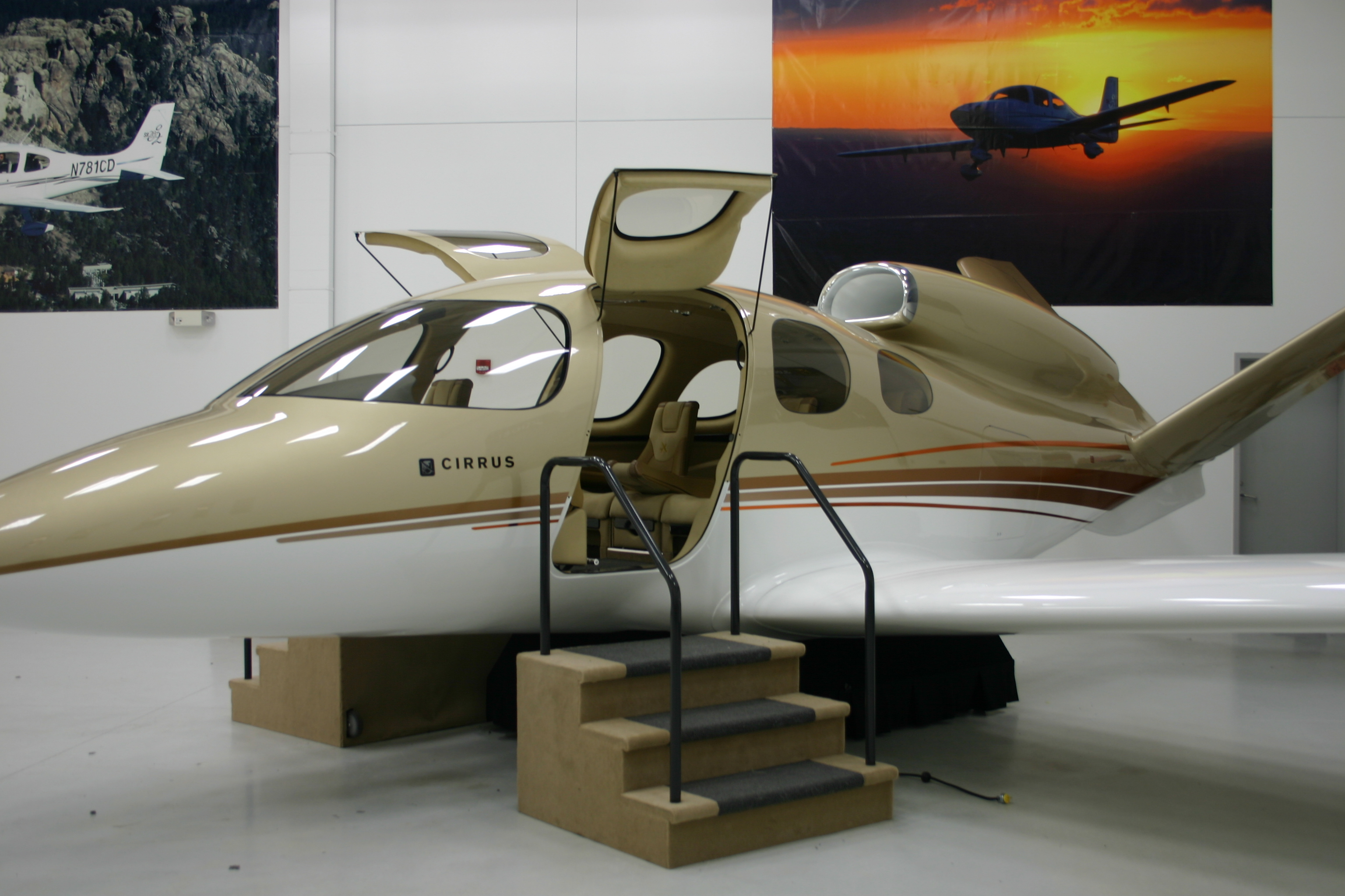 Picture of mockup of the Cirrus Jet.